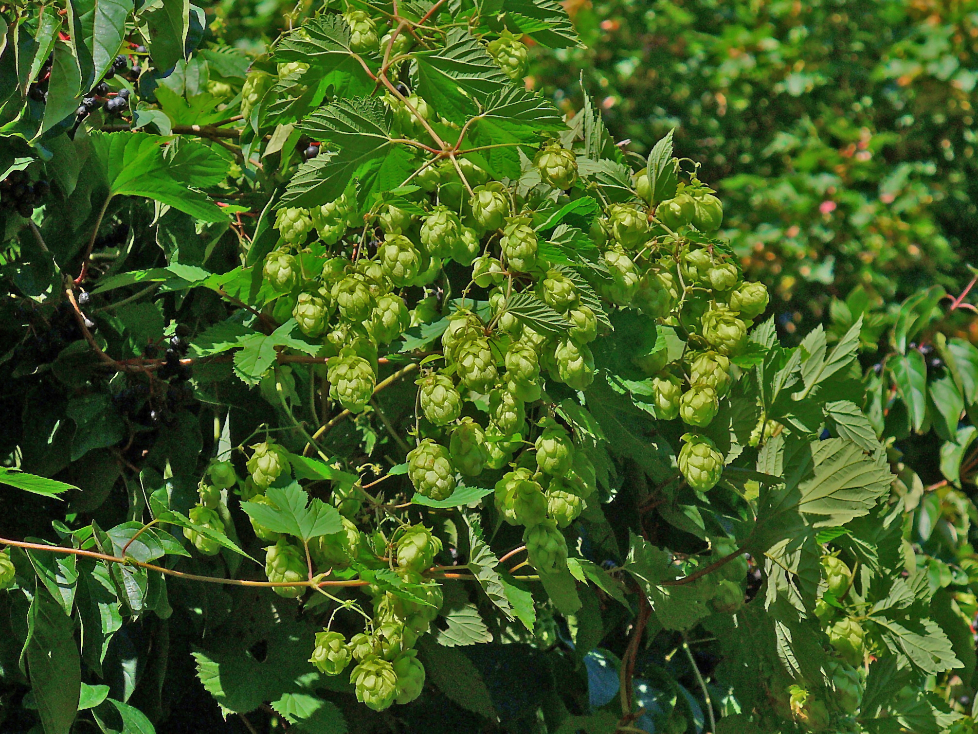 Common Hop, infrutescences; Karlsruhe, Germany.